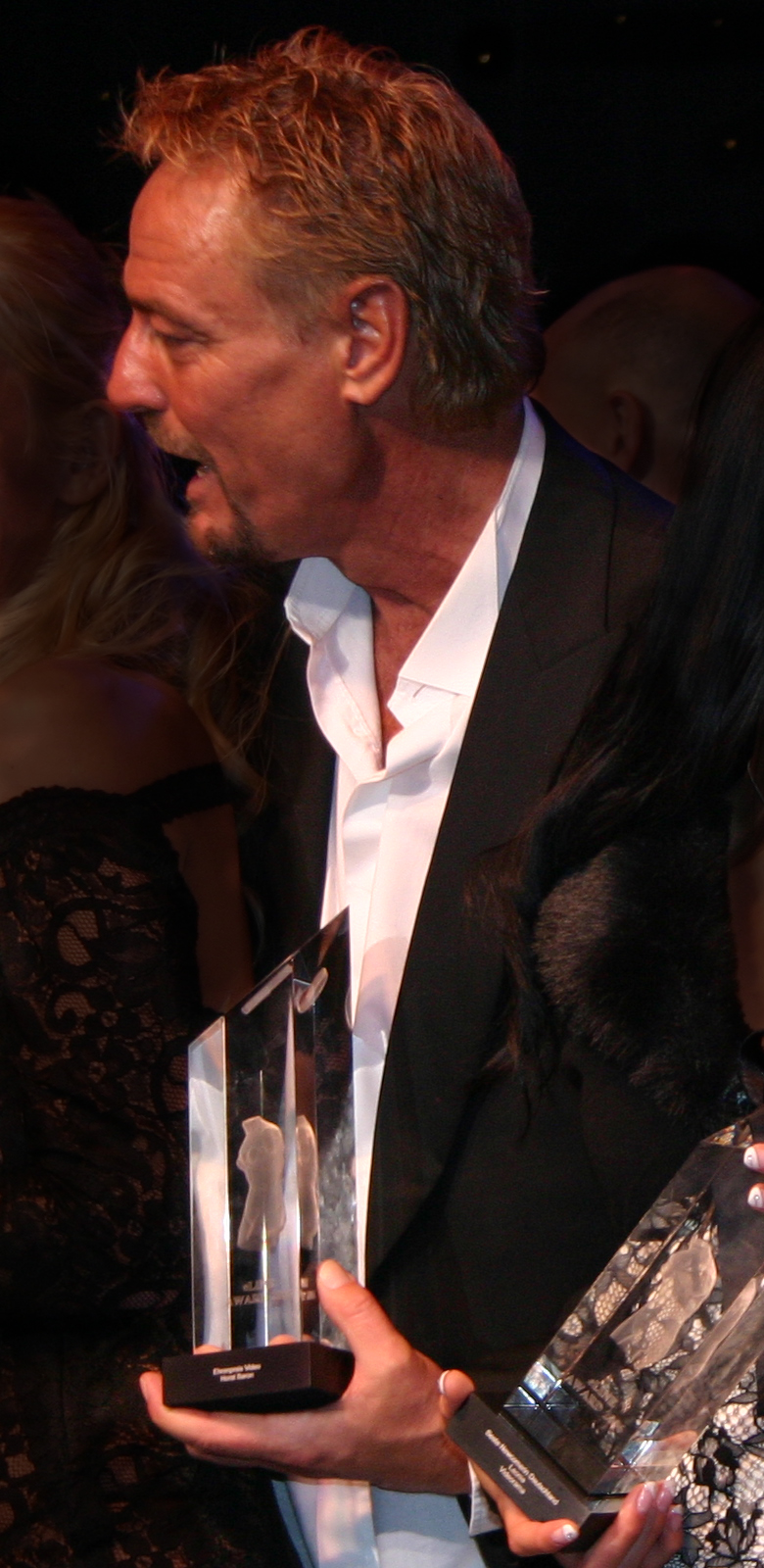 Horst Baron accepting the Eroticline Award 2006